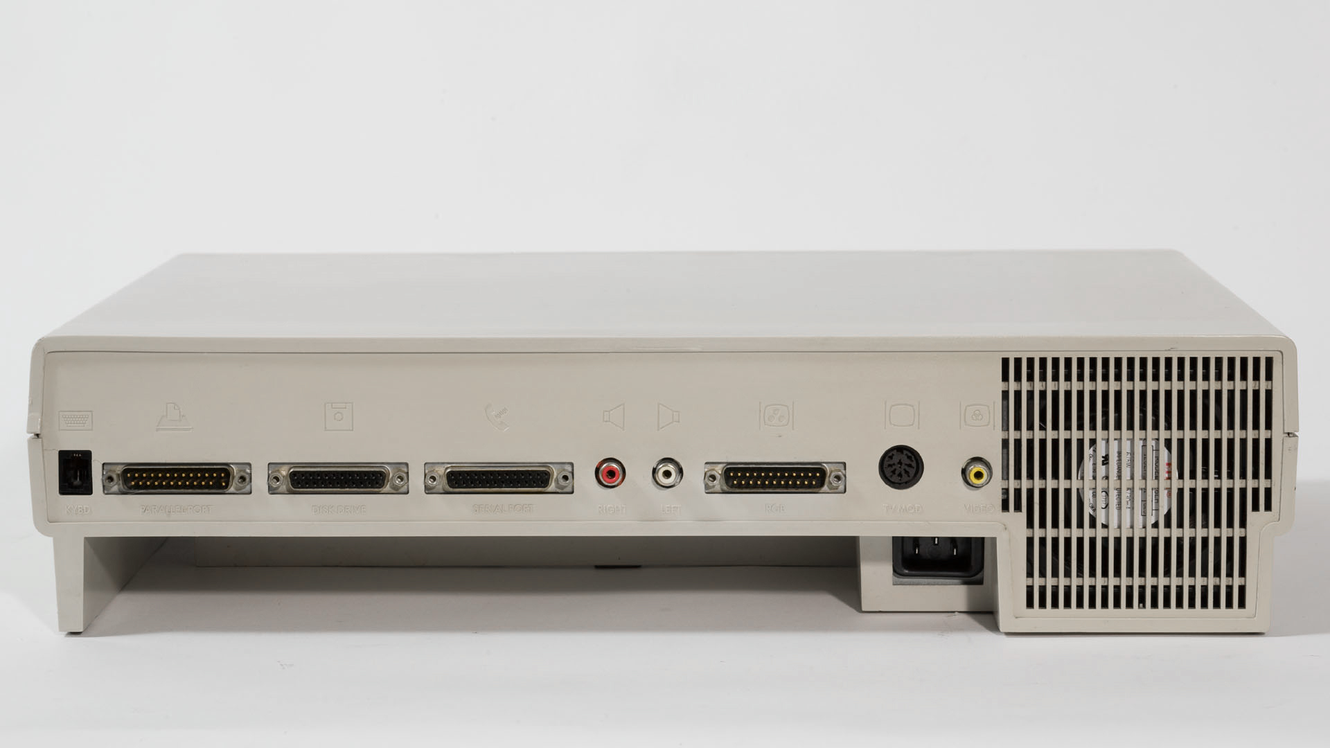 Amiga 1000 rear view, connectors from left to right: Keyboard, parallel port, external floppy drive, serial port, audio R, audio L, RGB monitor, composite TV, composite video